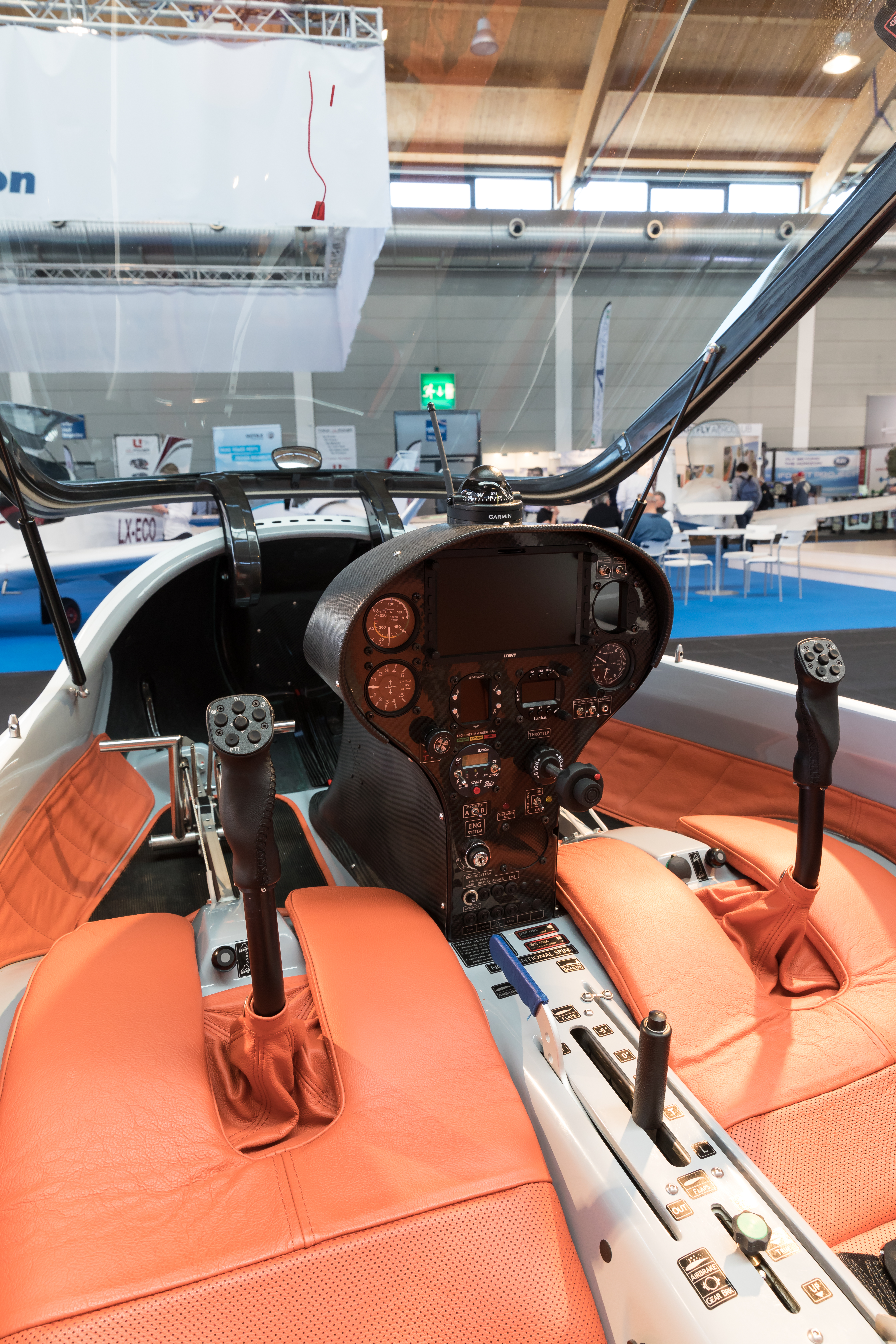 Aircraft cockpit, AERO Friedrichshafen 2018